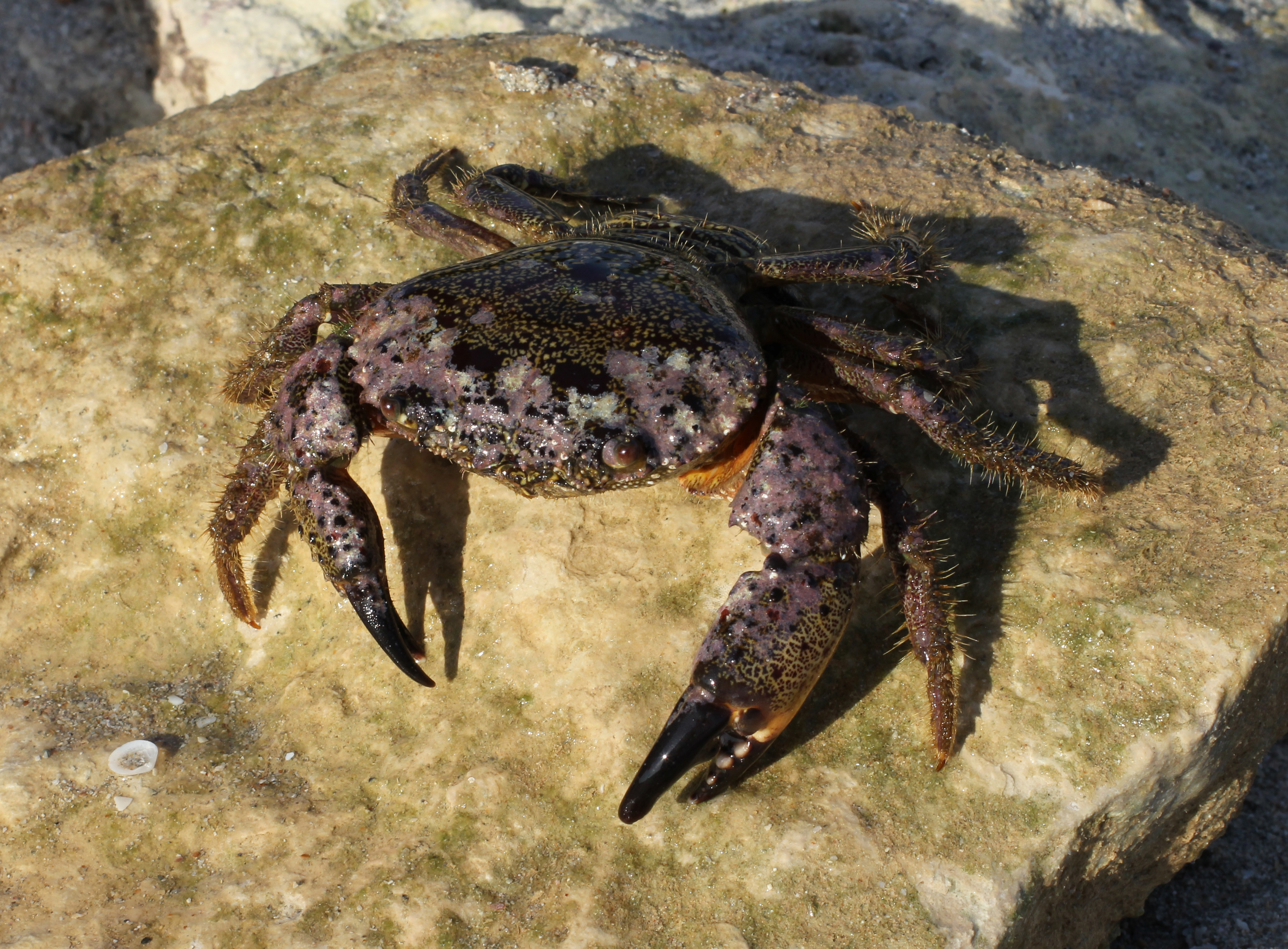 Eriphia verrucosa female, sometimes called the warty crab or yellow crab.